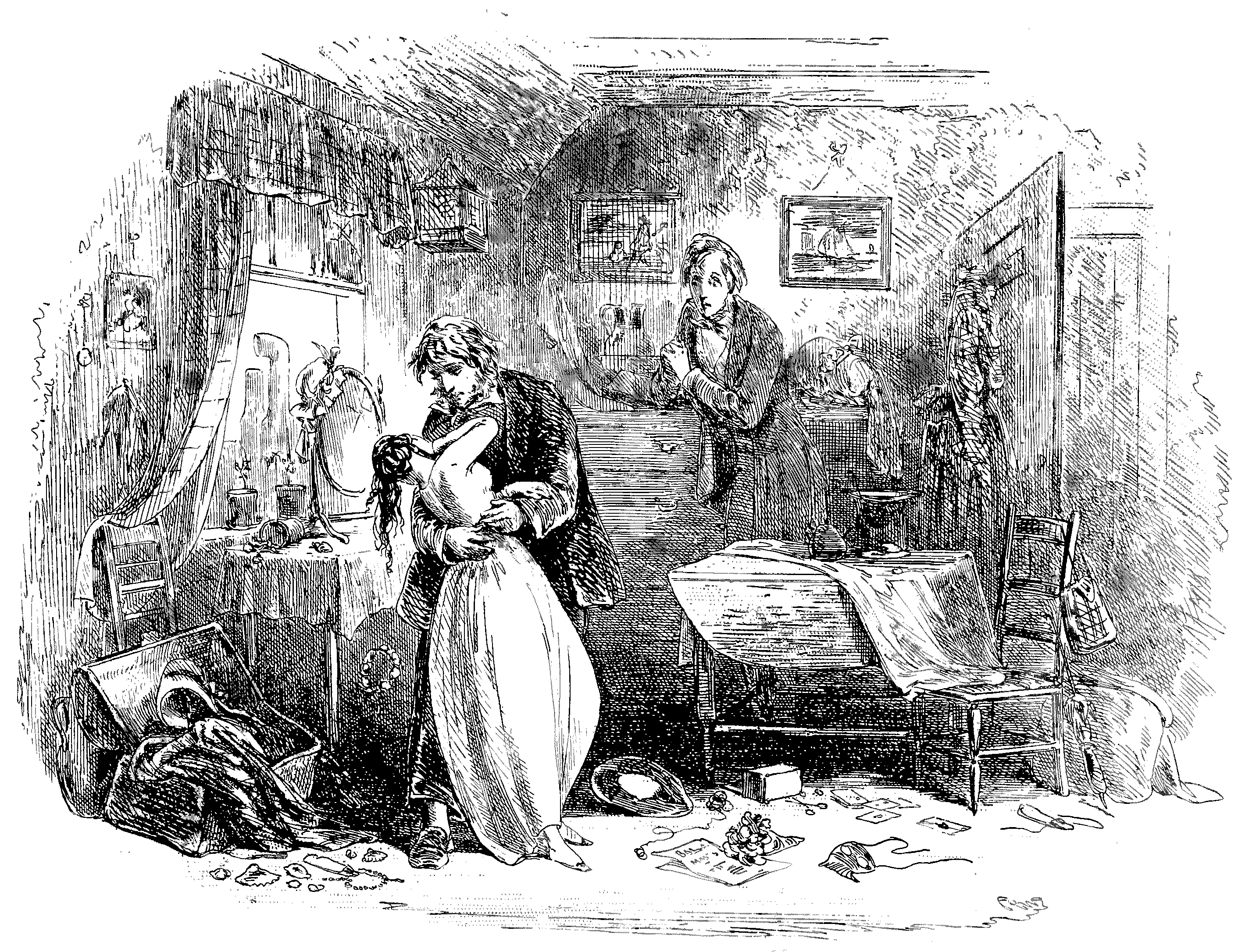 MR. PEGGOTTY'S DREAM COMES TRUE